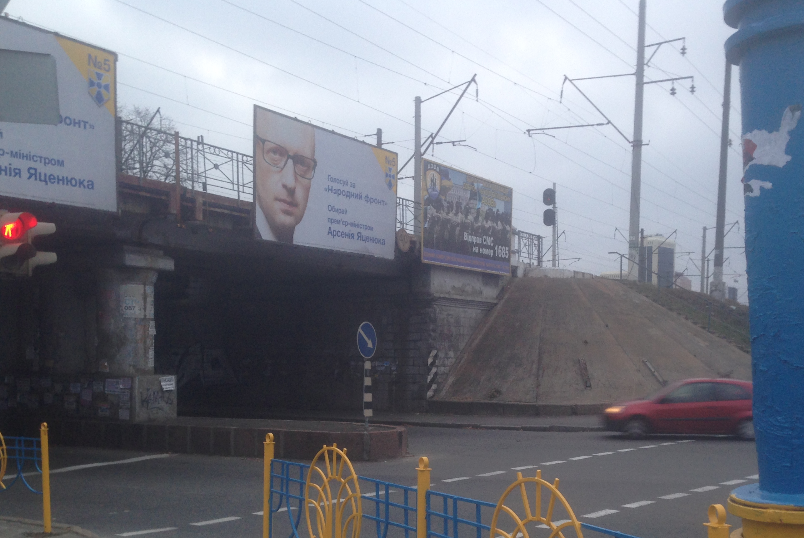 Posters of candidate Arsenia Yatseniuk of the People's Front hanging over viaduct in Kiev on October 23, 2014